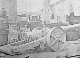 "6 in QF - this gun joined Buller just before the Tugela Heights battles".